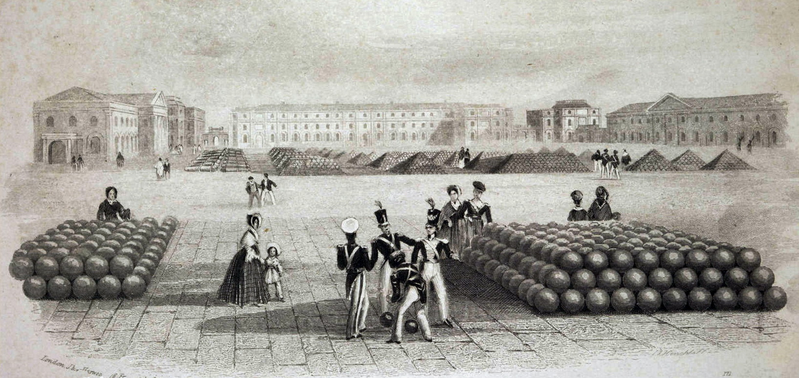 View of the Royal Arsenal at Woolwich showing soldiers and civilians examining cannon balls. Engraving after a drawing by J. Hinchcliff, 1841. Collection of the London Metropolitan Archives.